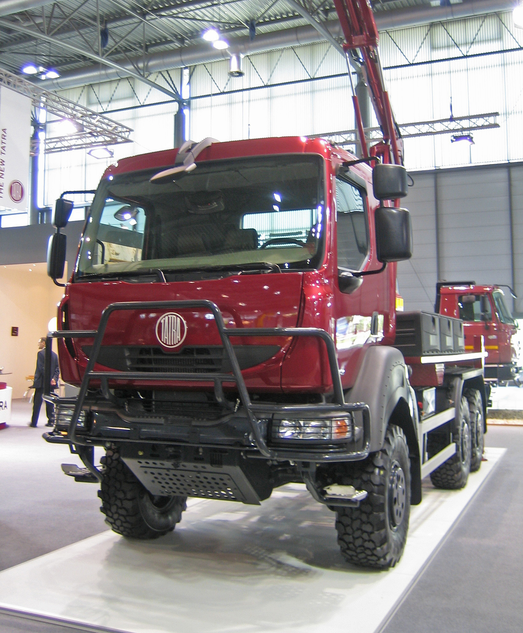 Tatra 810 at BVV